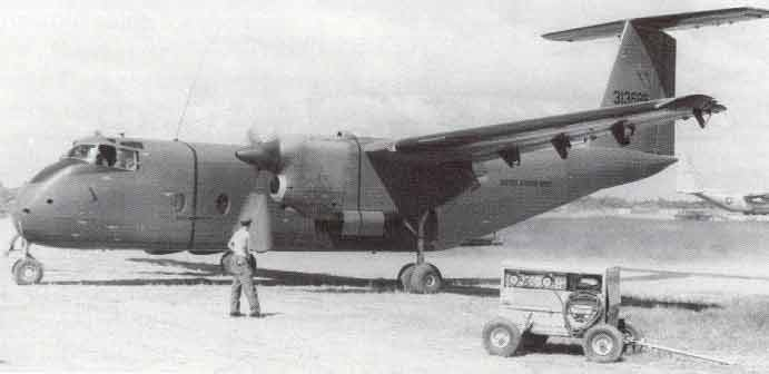 de Havilland Canada DHC-5 (AC-2/CV-7A/C-8) Buffalo of the U.S. Army (serial no. 63-13689, c/n 3), assigned to the 2nd Flight Platoon, 92nd Aviation Company, deployed to Bien Hoa AB, Viet Nam, November 25, 1965.